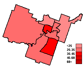 Map made by uploader (User:Earl Andrew); see [1] (question about source) and [2] (response).